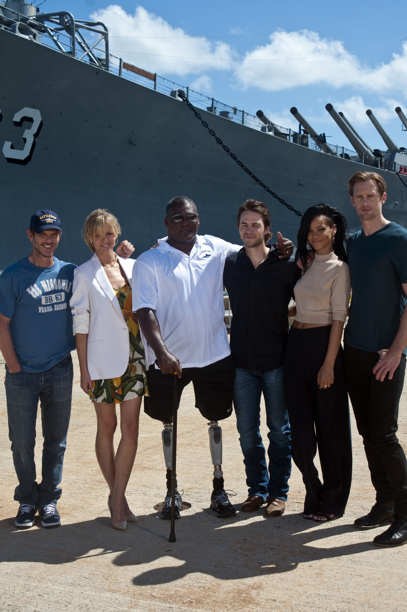 From left, Peter Berg, the director of 2012 science fiction naval war film, "Battleship," along with cast members Brooklyn Decker, Greg Gadson, Taylor Kitsch, Rihanna and Alexander Skarsgard, stand in front of the USS Missouri Memorial at Joint Base Pearl Harbor-Hickam in Hawaii, April 28, 2012. The cast and crew attended events in Hawaii to promote the film's opening in the United States. (U.S. Navy photo by Mass Communication Specialist 3rd Class Dustin W. Sisco)